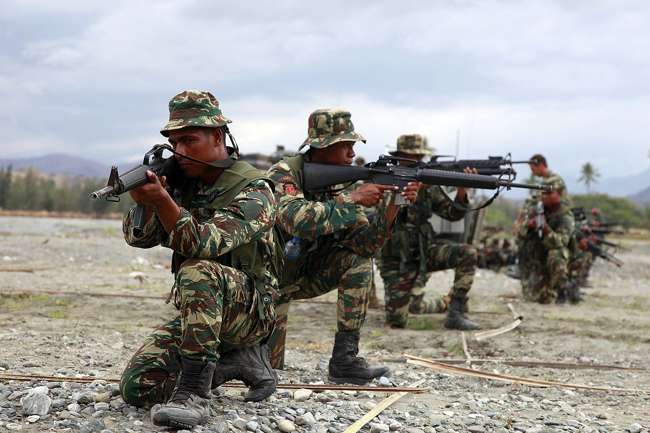 Timor-Leste Defense Forces soldiers in military training